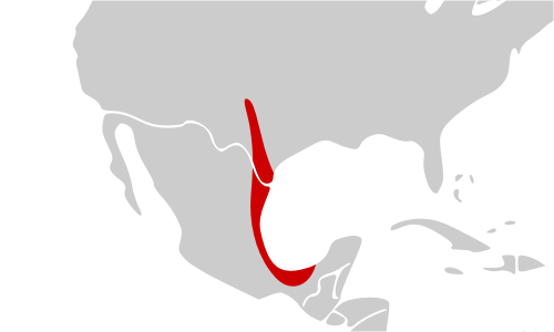 Distribution map for Astyanax mexicanus